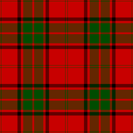 Maxwell tartan, as published in the Vestiarium Scoticum. Modern thread count: R6 G2 R56 Bk12 R8 G32 R6.